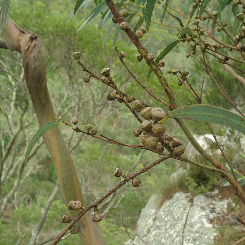 Fruit of Eucalyptus wilcoxii fruit on cliffs above Brogo Dam